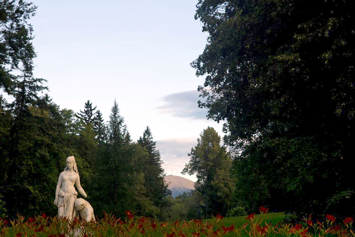 After thoughtless plantings were removed, the visual axes in the park opened. From the terrace of the palace you can admire the statue of Cleopatra and the top of the Sněžka.